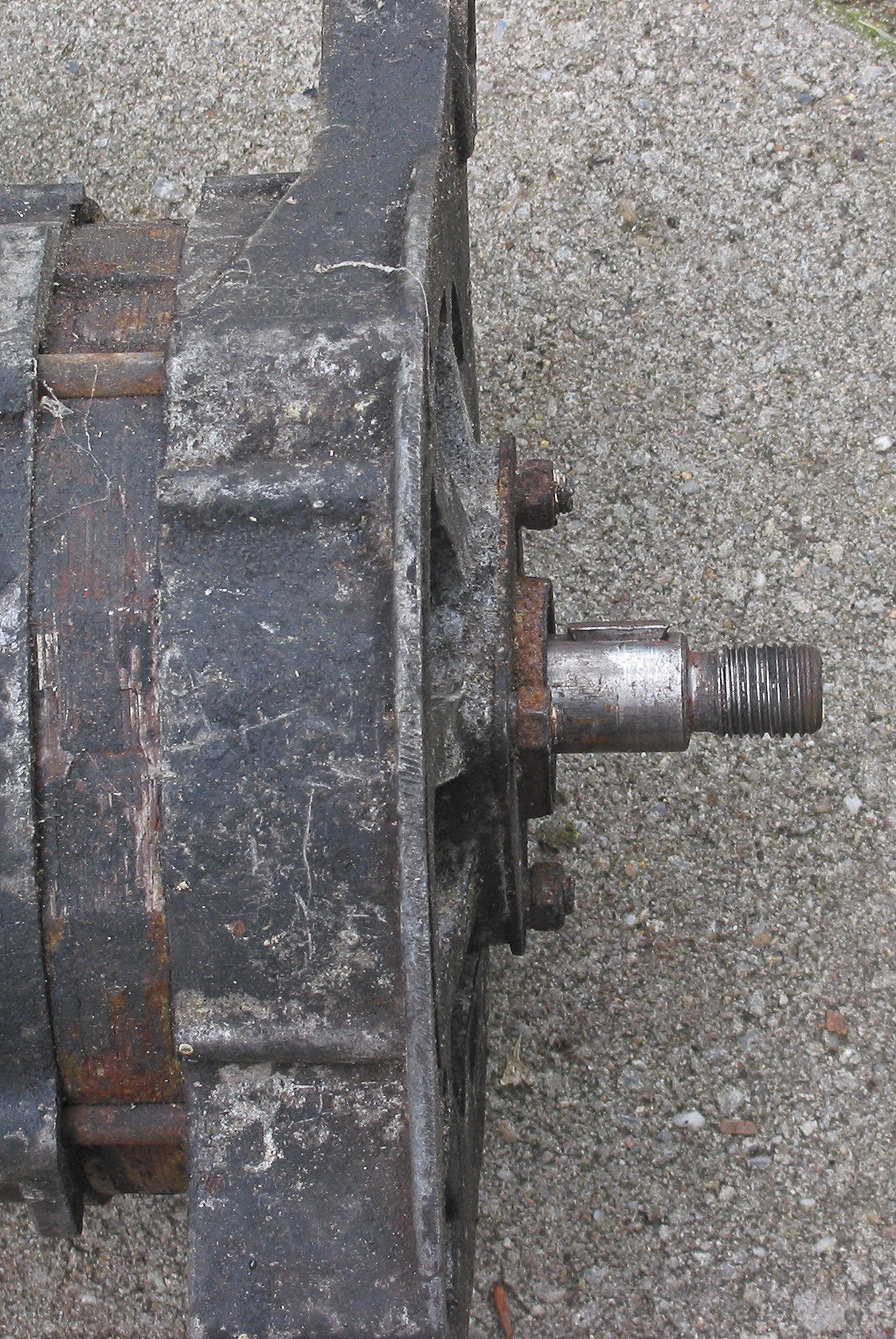 A Woodruff key in an alternator shaft